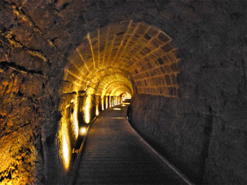 Akko, Israel. This tunnel 350m long, was constructed by the Knights Templar to serve as a strategic underground passageway linking the fortress with the port.